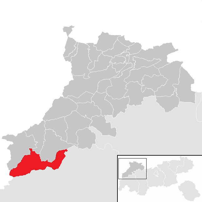 District Reutte